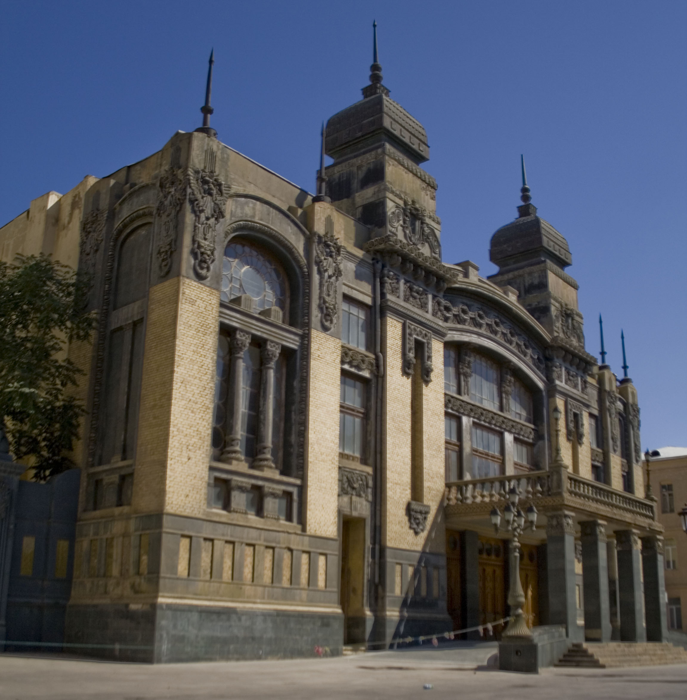 Azerbaijan State Opera and Balet Theater, Baku